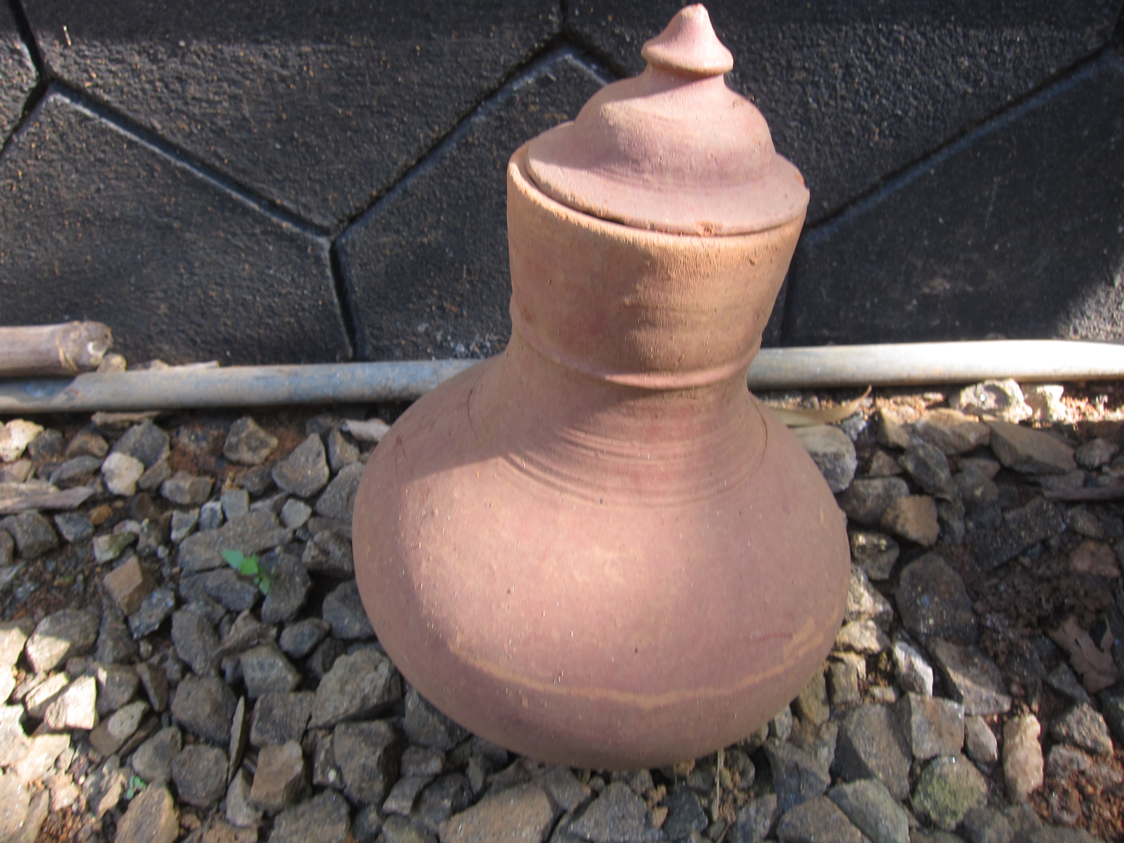 Kooja - കൂജ